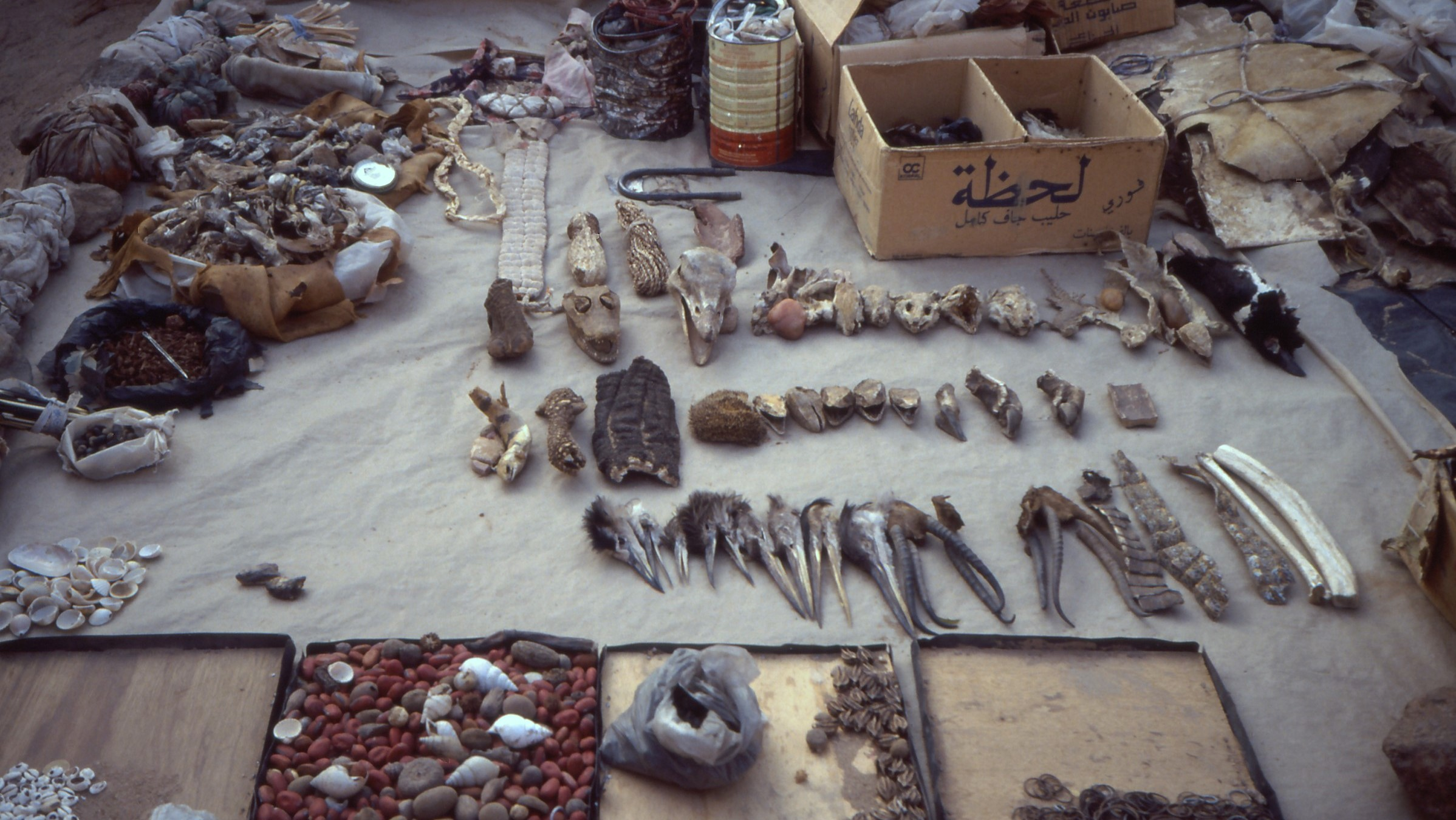 Tools for shamans at the market in Agadez, Niger.